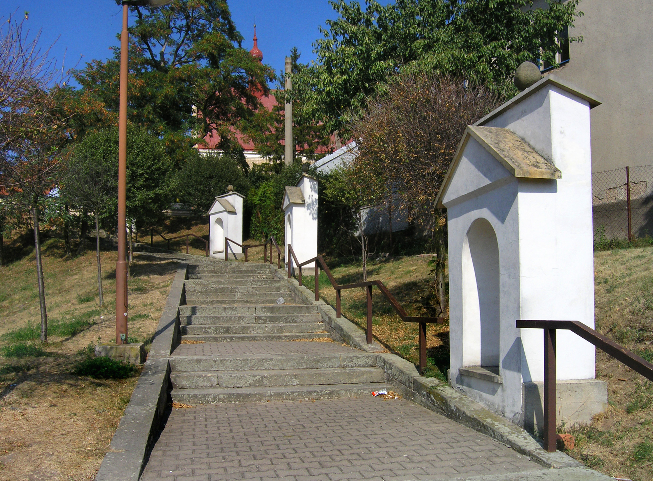 Road to the church in Libčany, Czech Republic